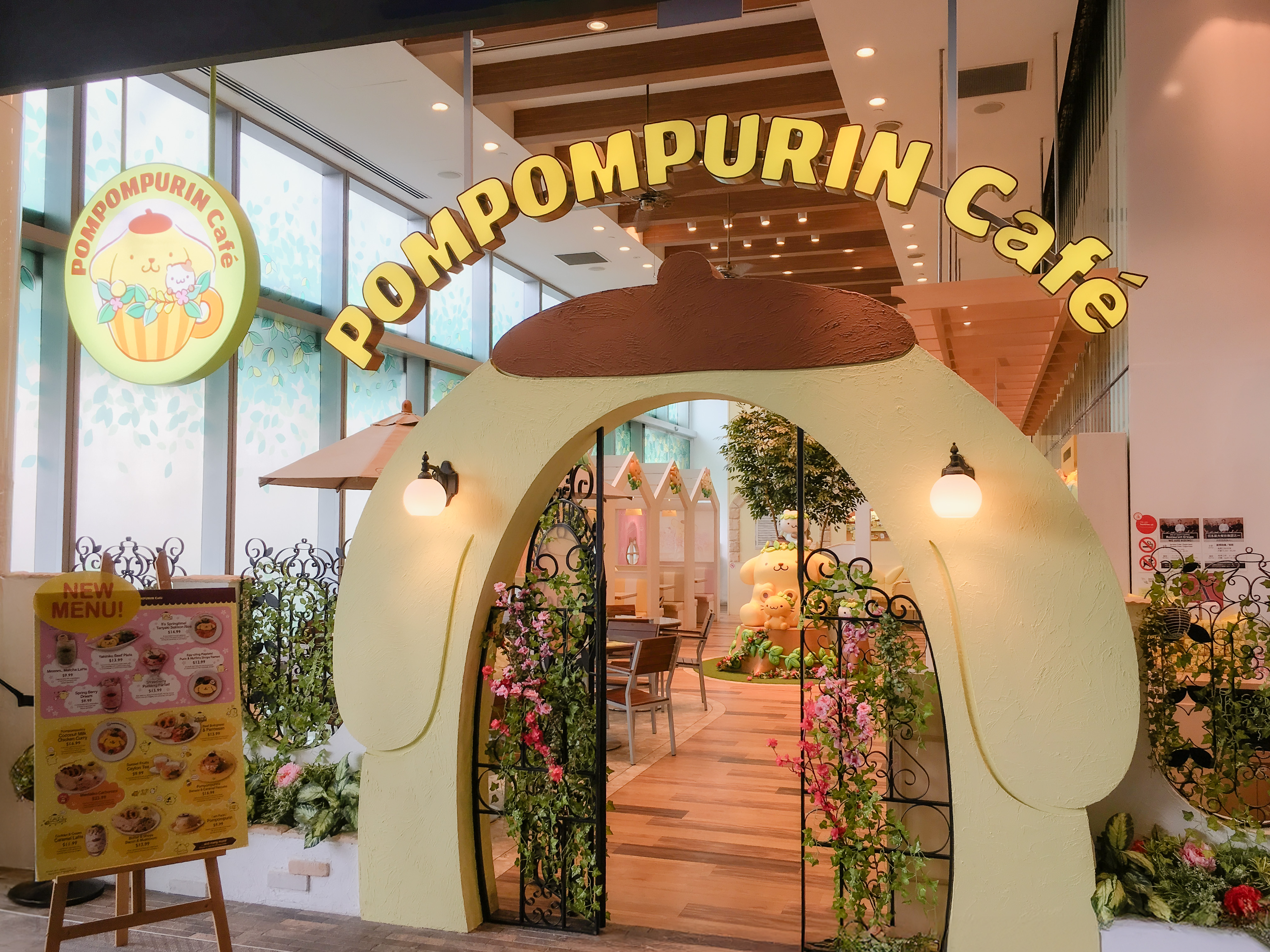 Pompompurin Café located at Orchard Central, Singapore